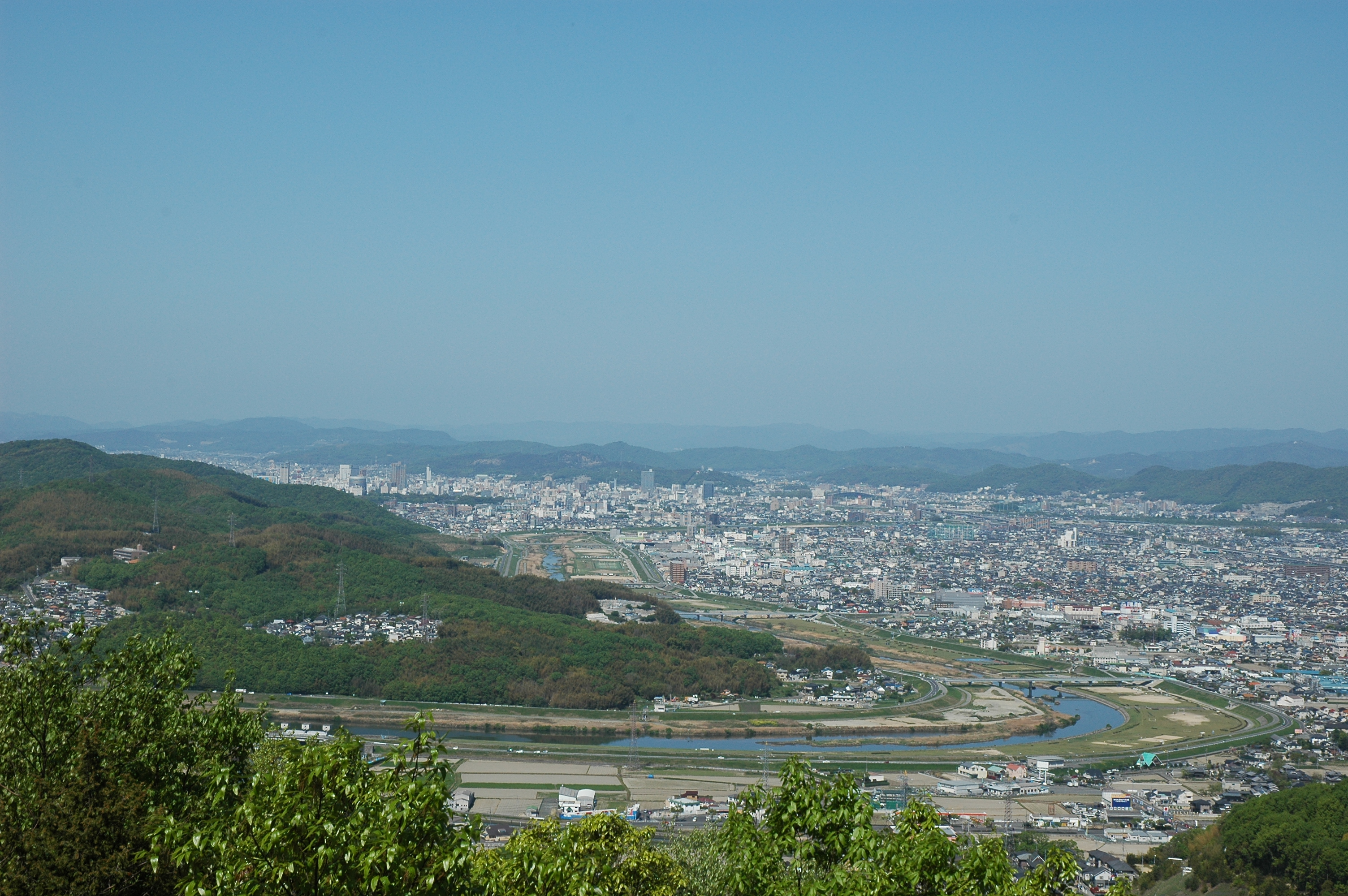 view in middle reaches of Hyakken River(Hyakkengawa), Mt.Misao and Okayama city from Mt.Keshigo